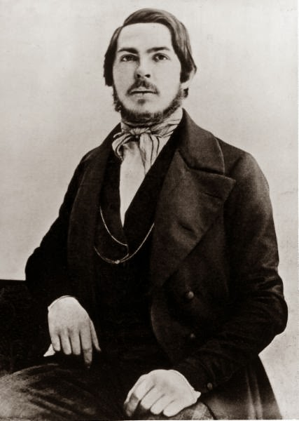 A famous early photograph of Friedrich Engels, which has been asserted as showing him at age 25 in 1845,[1] at age 20 in 1840,[2] "in his twenties",[3] and at other ages in other years according to other claimants or guessers. One claims that it is Engels between 1857 an 1859 (Jenny Marx wrote to Conrad Schramm 8th. December 1857: „Apropos. Wir haben die Photographien von Freiligrath und Engels. Wenn es Ihnen nicht zu lästig ist, lassen Sie uns doch auch eine von sich machen. Karl hätte so gerne seine besten Freunde im Bilde um sich.“ . Friedrich Leßner wrote about a photography of Friedrich Engels: „In 1859 I wrote a letter to Engels, asking him incidentally for a photograph, which I received together with an excellent letter here,but in spite of much seeking I have not been able to find it.“ (Marx and Engels through the eyes of their contempotraries. Progress Publishers, Moskow 1972, p.119.)[4] This photograph was first published in 1920. Gustav Mayer wrote: „Das dem Werk vorgedruckte Porträt des jungen Engels ist ein Daguerreotyp im Besitz der Familie“. (Friedrich Engels. Schriften der Frühzeit. Julius Springer, Berlin 1920, p. XII.) In 1929 it has been published in the Russian Works of Marx and Engels. Vol V., Moskow 1929. „Engels in the mid-forties“ (Κарл Μаркс Фридрих Энгельс. Собрание фотографий. Моskau 1976, p. 244.)